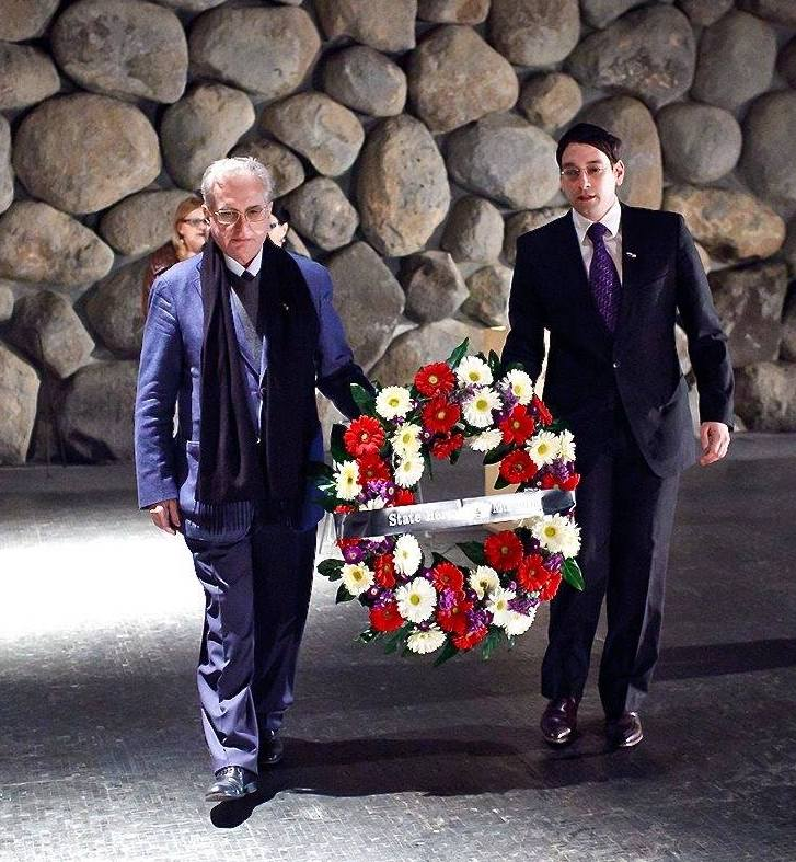 Yad Vashem MT